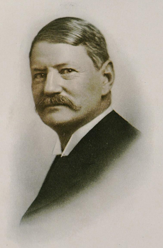 H. S. Barber, Kentucky